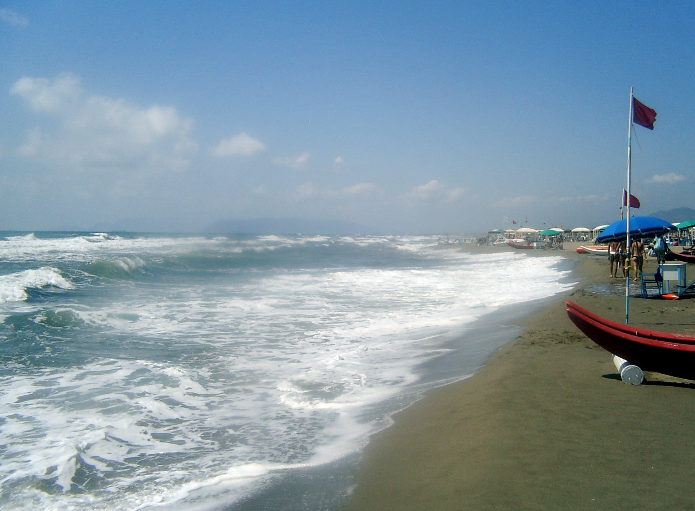 The beach in Forte dei Marmi